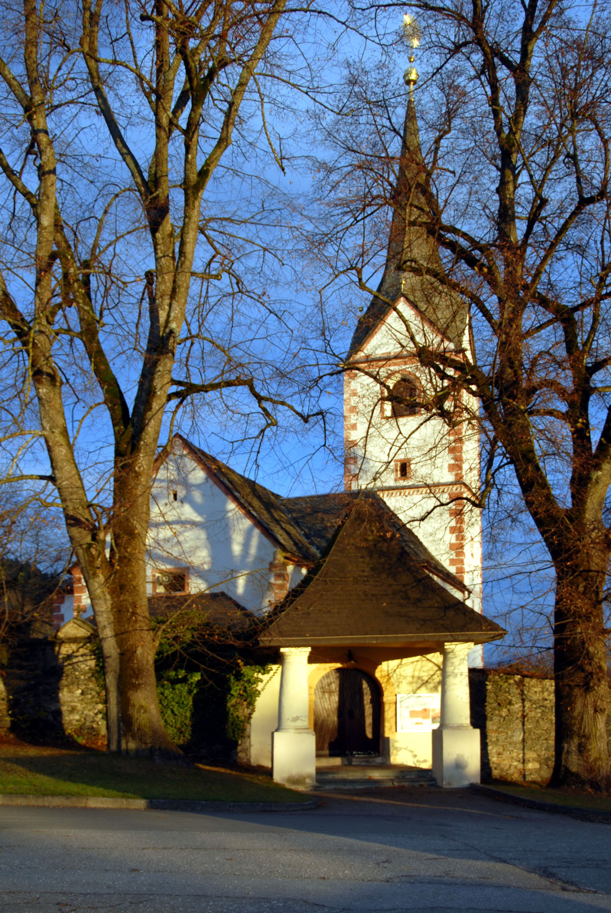 Parish church Saint Margaretha in Ottmanach, municipality Magdalensberg, district Klagenfurt Land, Carinthia / Austria / EU